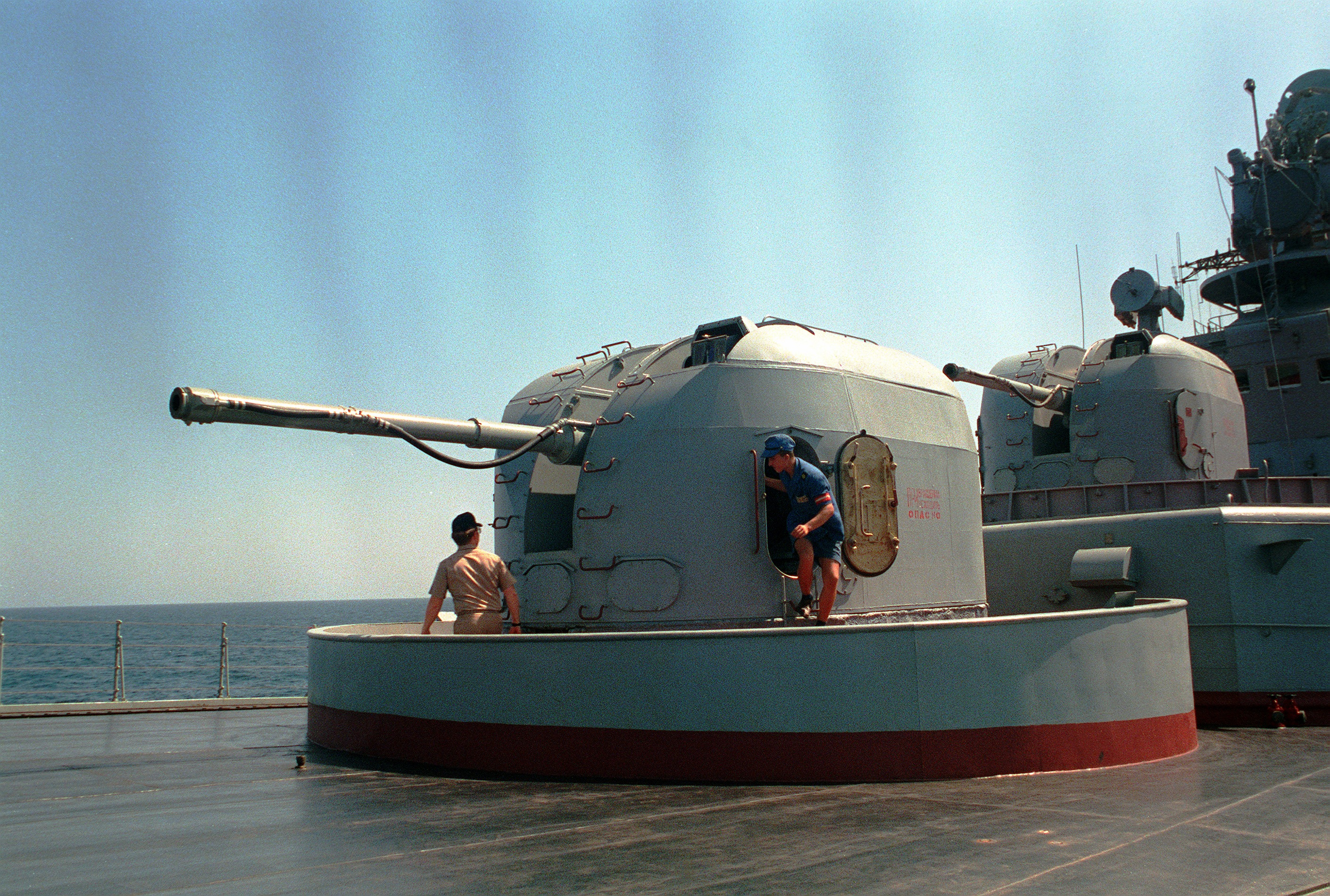 The 3.9-inch dual purpose guns and the bridge aboard the Russian guided missile destroyer Admiral Vinogradov (BPK-554).